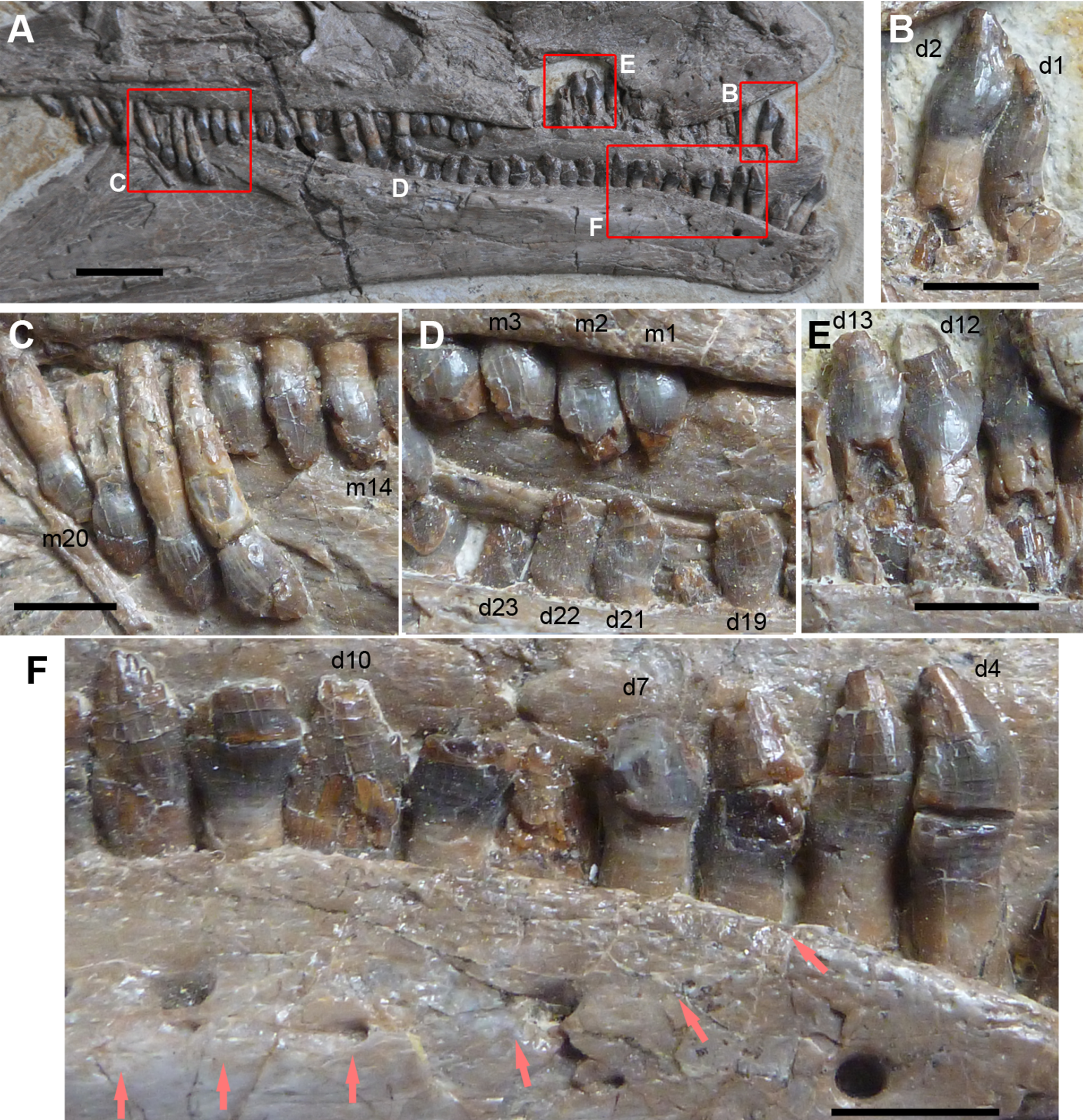 Dentition of Jianchangosaurus yixianensis gen. et sp. nov. A, Teeth in the upper and lower jaws. Labial surfaces of the right maxillary and dentary teeth and lingual surfaces of the left dentary teeth are exposed. The premaxilla and anterior tip of the dentary are edentulous. B, Anterior left dentary teeth (first and second) in lingual view, showing the convex lingual surface. A replacement tooth is exposed at the root of the second dentary tooth. C, Posterior right maxillary teeth (from fourteenth to twentieth) in labial view. The crown size diminishes posteriorly. D, Middle right maxillary and dentary teeth in labial view. The maxillary teeth exhibit the conventional dental morphology (convex labial surfaces), but the dentary teeth show the reversed dental morphology (concave labial surfaces). E, Middle left dentary teeth (from eleventh to thirteenth) in lingual view, showing the reversed dental morphology (convex lingual surfaces). F, Anterior left dentary teeth in labial view, showing a shelf (red arrows; starting between d6 and d7) and a shift from normal (d4 to d6; convex labial surface) to reversed (d7 and posterior; concave labial surface) teeth. Scale bars on A–F are 1 cm.